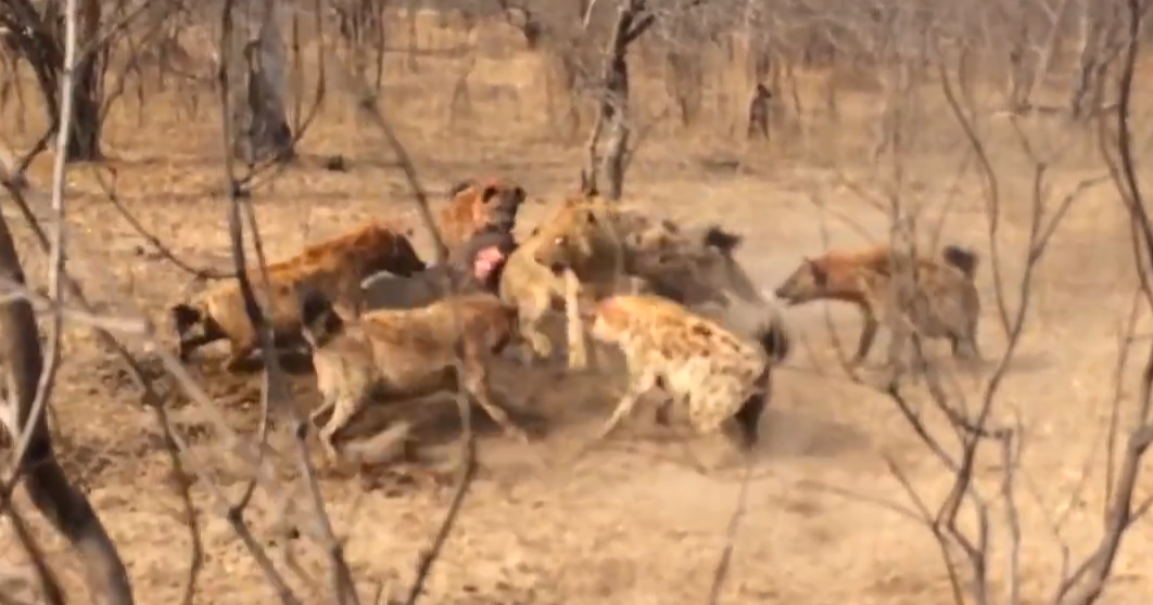 Hyenas clashing with lions at the Sabi Game Reserve